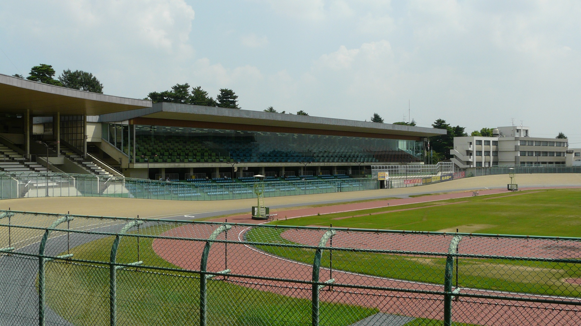 Omiya-keirin